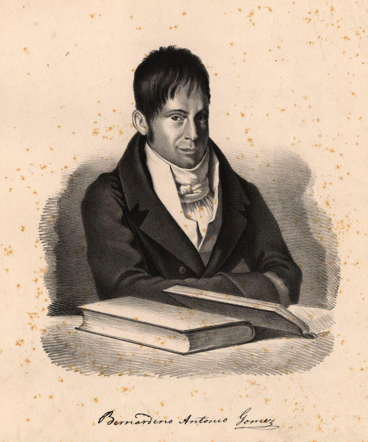 Bernardino António Gomes - scientist, doctor and botanist.